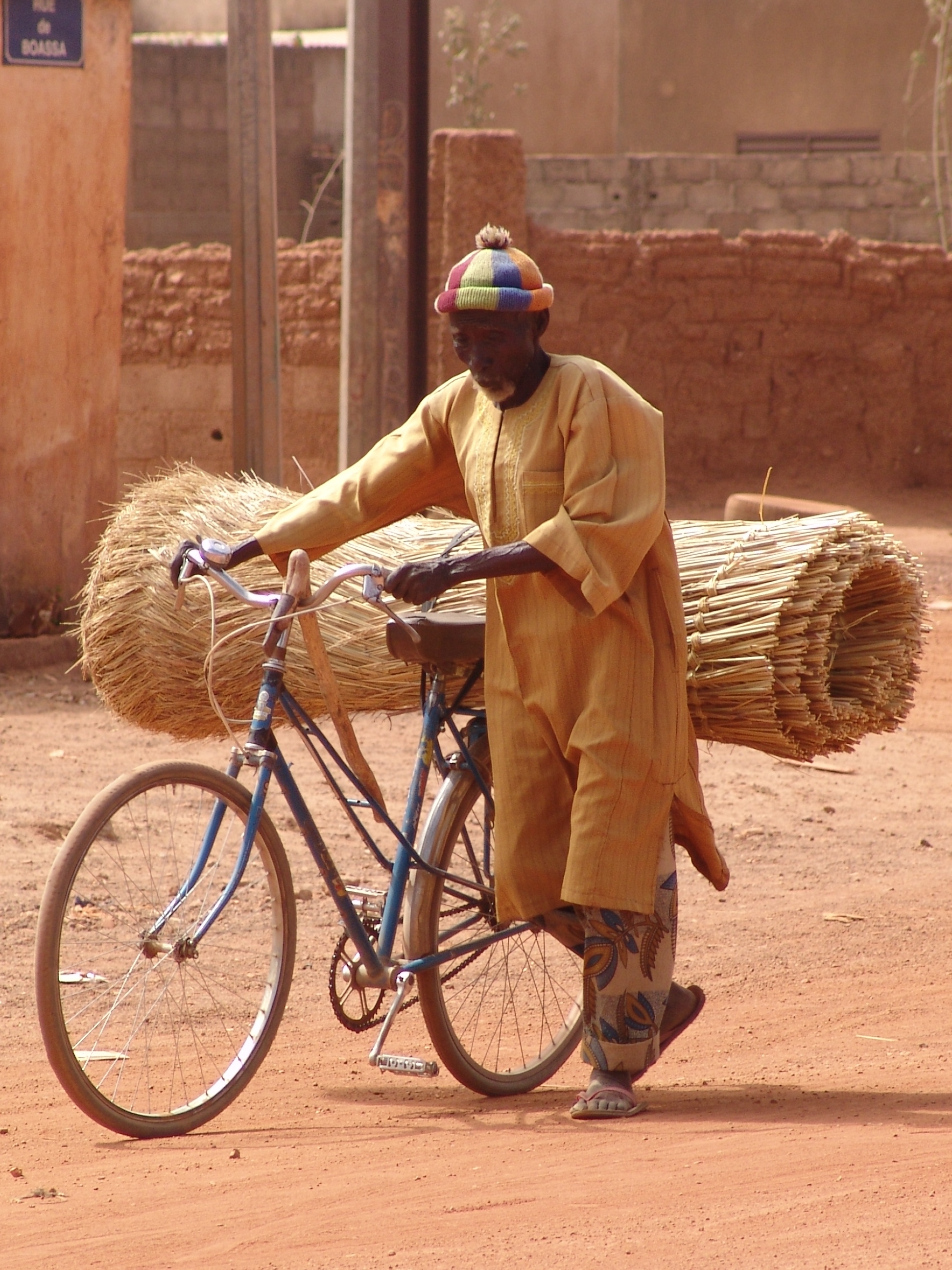 Person mit Fahrrad, Ouagadougou